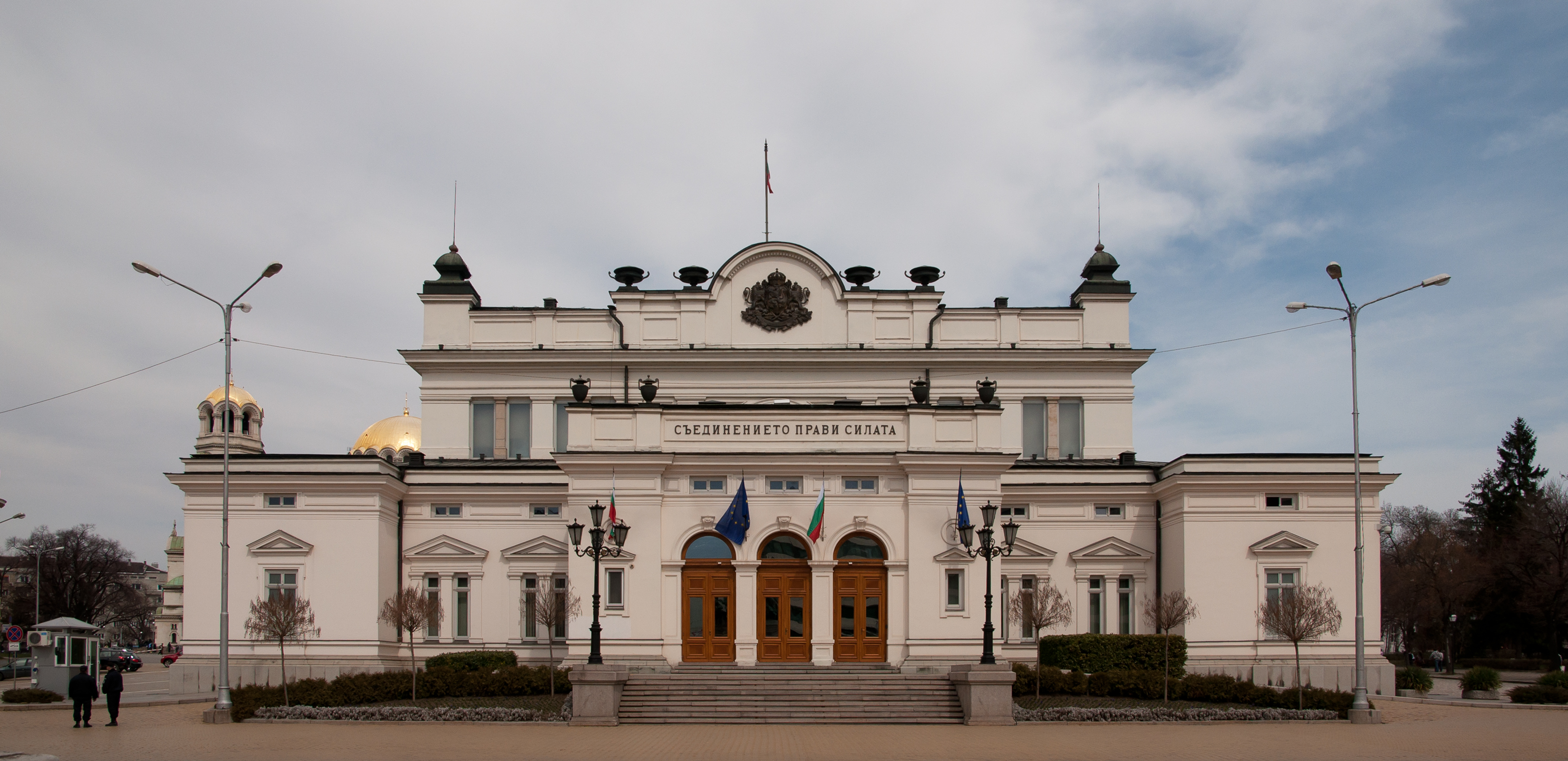 The National Assembly (parliament) building of Bulgaria, Sofia.